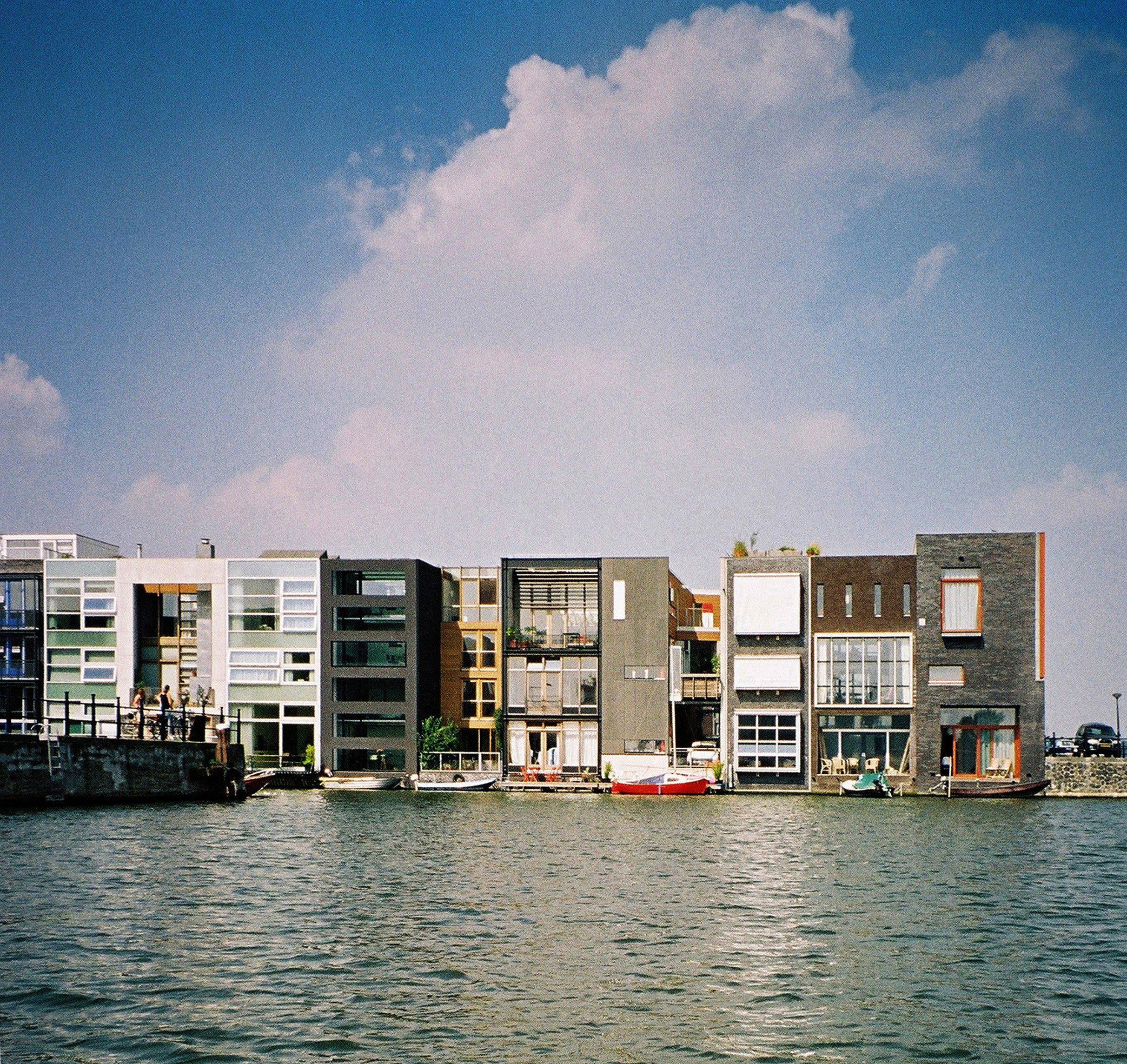 Amsterdam Scheepstimmermanstraat waterside. Residential area with free choice of style and architect (participation). Urban plan 1993 and coordination by West 8 (Adriaan Geuze), construction 1996-1997 by different architects.